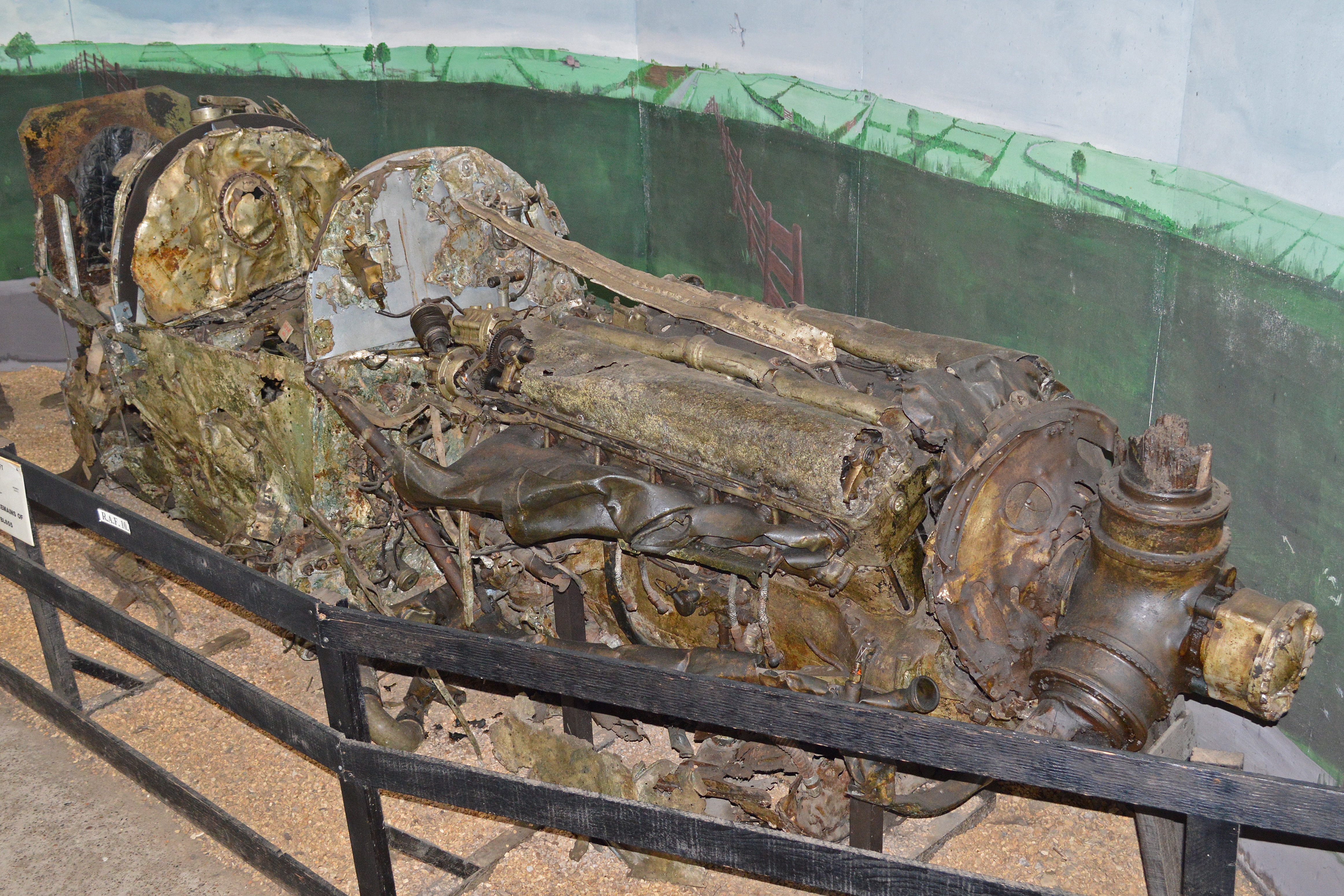 c/n CBAF.1680. Crashed at Spilsby, Lincs on the 1st July 1943 while flying with No416sqn RCAF. Canadian Flying Officer Norman Alexander Watt was killed when BL655 spun out of cloud six miles east-south-east of Digby and failed to recover. The wreckage was recovered in 1990 and is now on display at the Lincolnshire Aviation Heritage Centre. East Kirkby. 16-06-2014